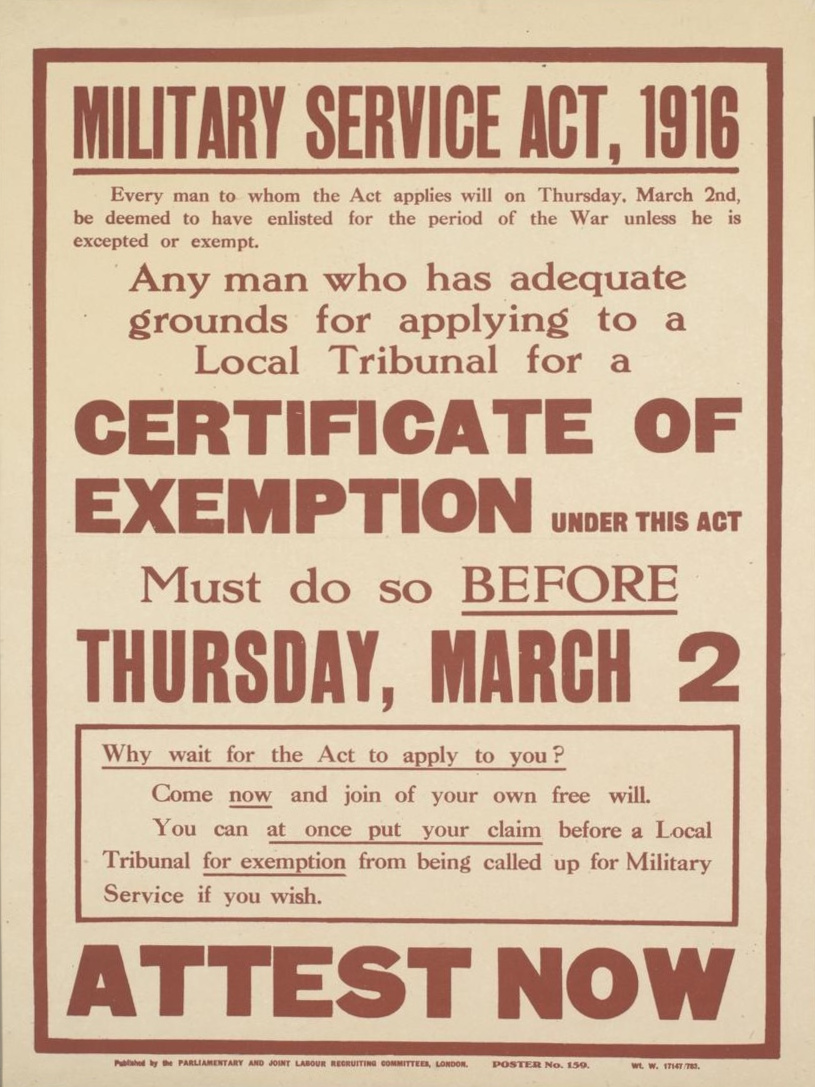 British conscription poster : "MILITARY SERVICE ACT, 1916 Every man to whom the Act applies will on Thursday, March 2nd, be deemed to have enlisted for the period of the War unless he is excepted or exempt. Any man who has adequate grounds for applying to a Local Tribunal for a CERTIFICATE OF EXEMPTION under this act Must do so BEFORE THURSDAY, MARCH 2 Why wait for the Act to apply to you ? Come now and join of your own free will. You can at once put your claim before a Local Tribunal for exemption from being called up for Military Service if you wish. ATTEST NOW" For Welsh language version see File:Welsh Military Service Act 1916 poster IWM Art.IWM PST 5029.jpg